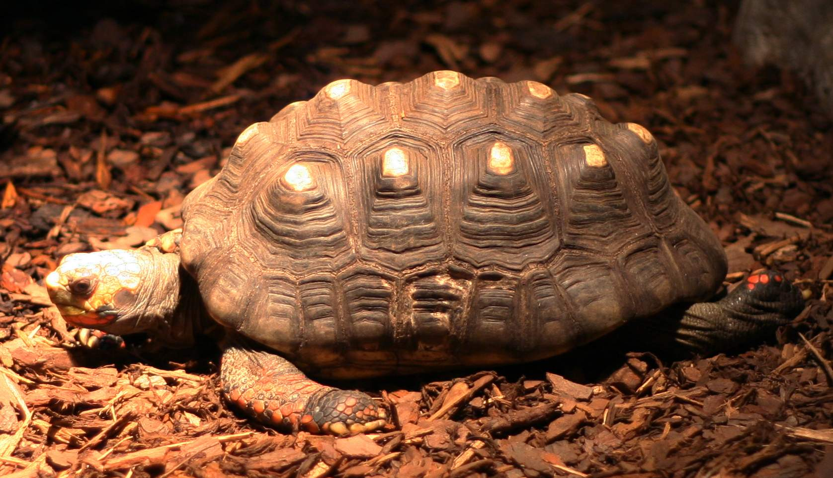 A Red-footed tortoise (Geochelone carbonaria), at the Buffalo Zoo